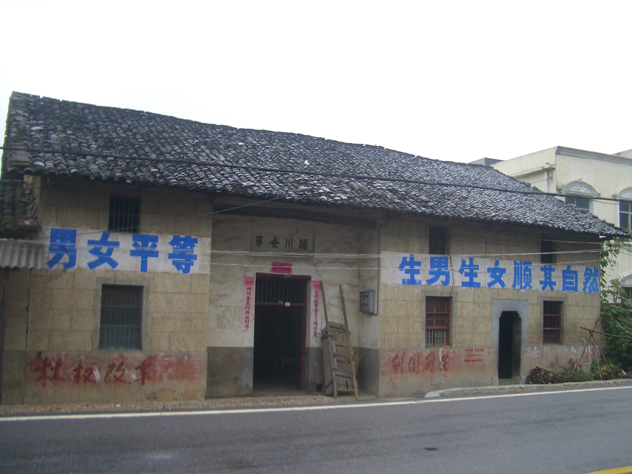 A village house in Tongshan County, Hubei (between Tongshan town and Hengshitan Zhen, seen from Highway G106). The village is probably Fanzhong (畈中村). The blue slogan says, on the left, 男女平等 ('Equality of men and women'); on the right, 生男生女順其自然 ('A boy is born or a girl is born, obey the natural course of things')